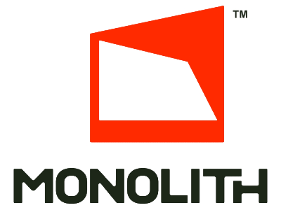 Monolith Productions logo